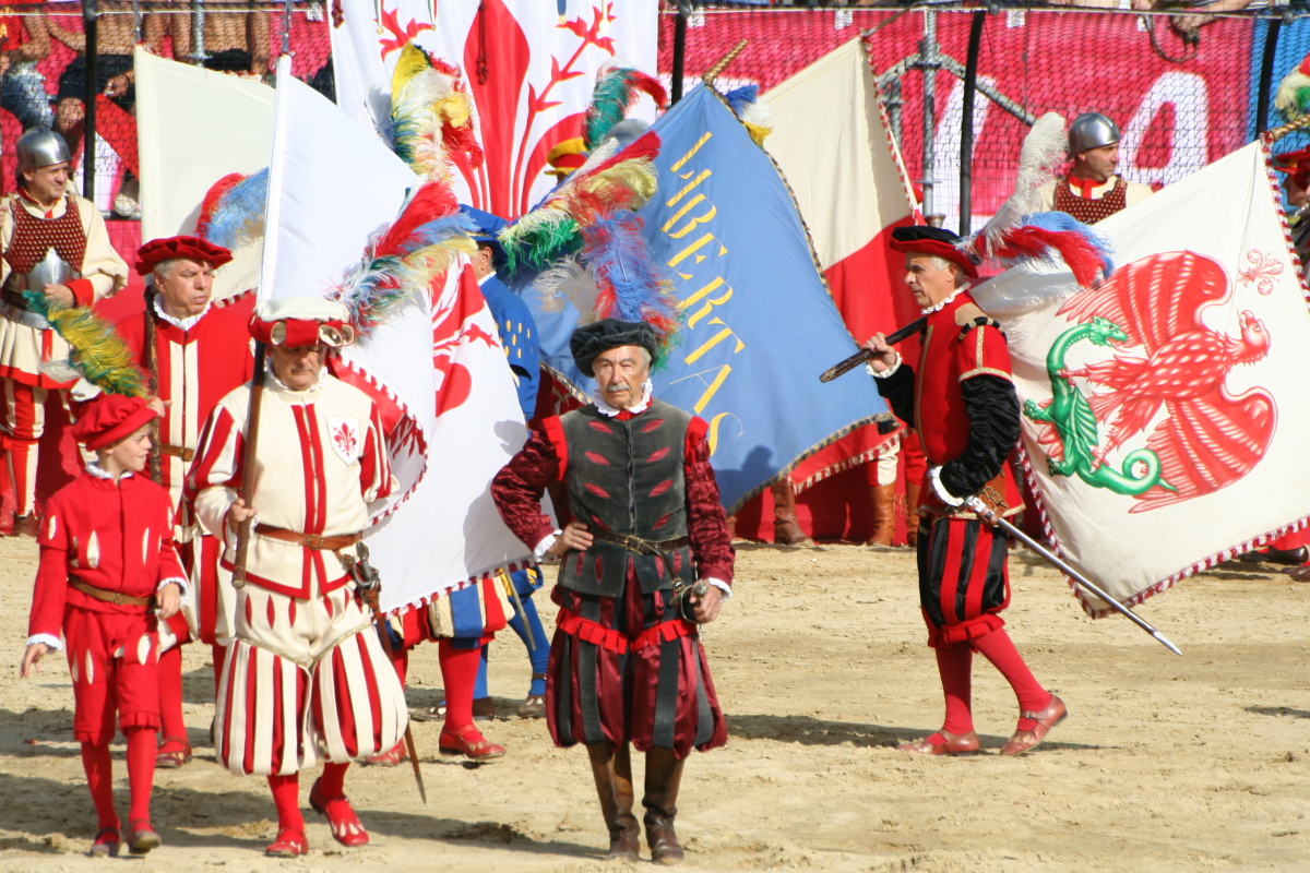 Calcio Storico Parade - 24.06.2008 - Luciano Artusi, Capitano di Guardia